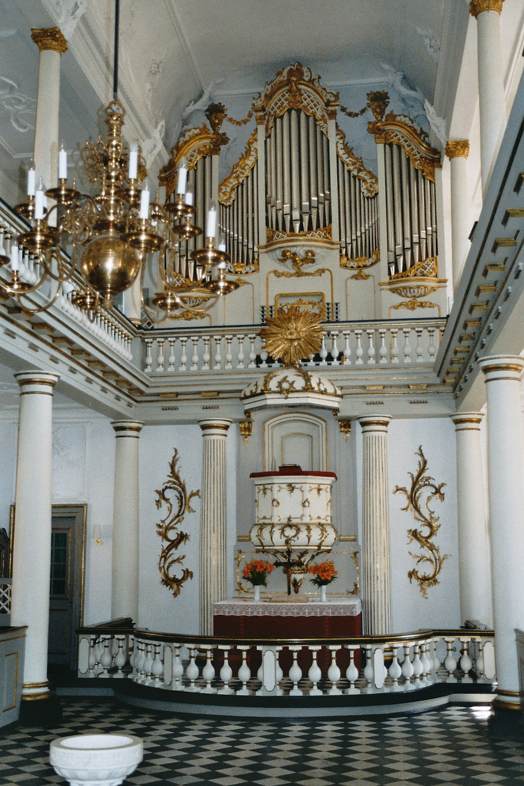 Augustenborg (Als island), the chateau chapel